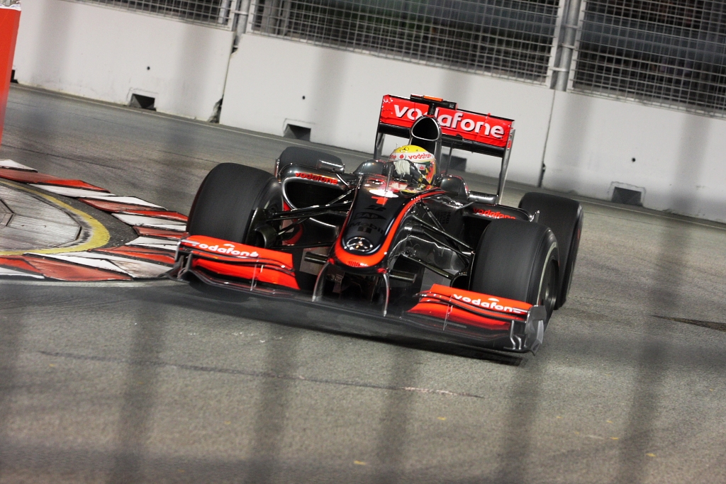 Lewis Hamilton driving for McLaren at the 2009 Singapore Grand Prix.